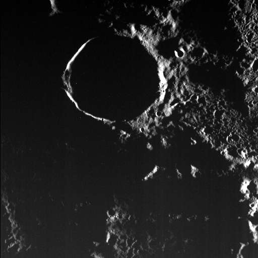 Sapkota crater on Mercury. Approximate north is at bottom. Emission Angle: 24.5 Incidence Angle: 89.4 Latitude: 86.4 Longitude: 224.8 Phase Angle: 89.5